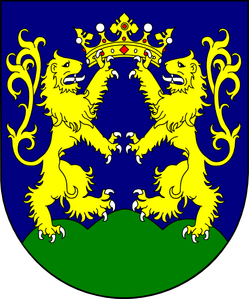 Coat of arms (shield only) of Antal Andrássy, bishop of Rožňava, Slovakia (1780 - 1799).